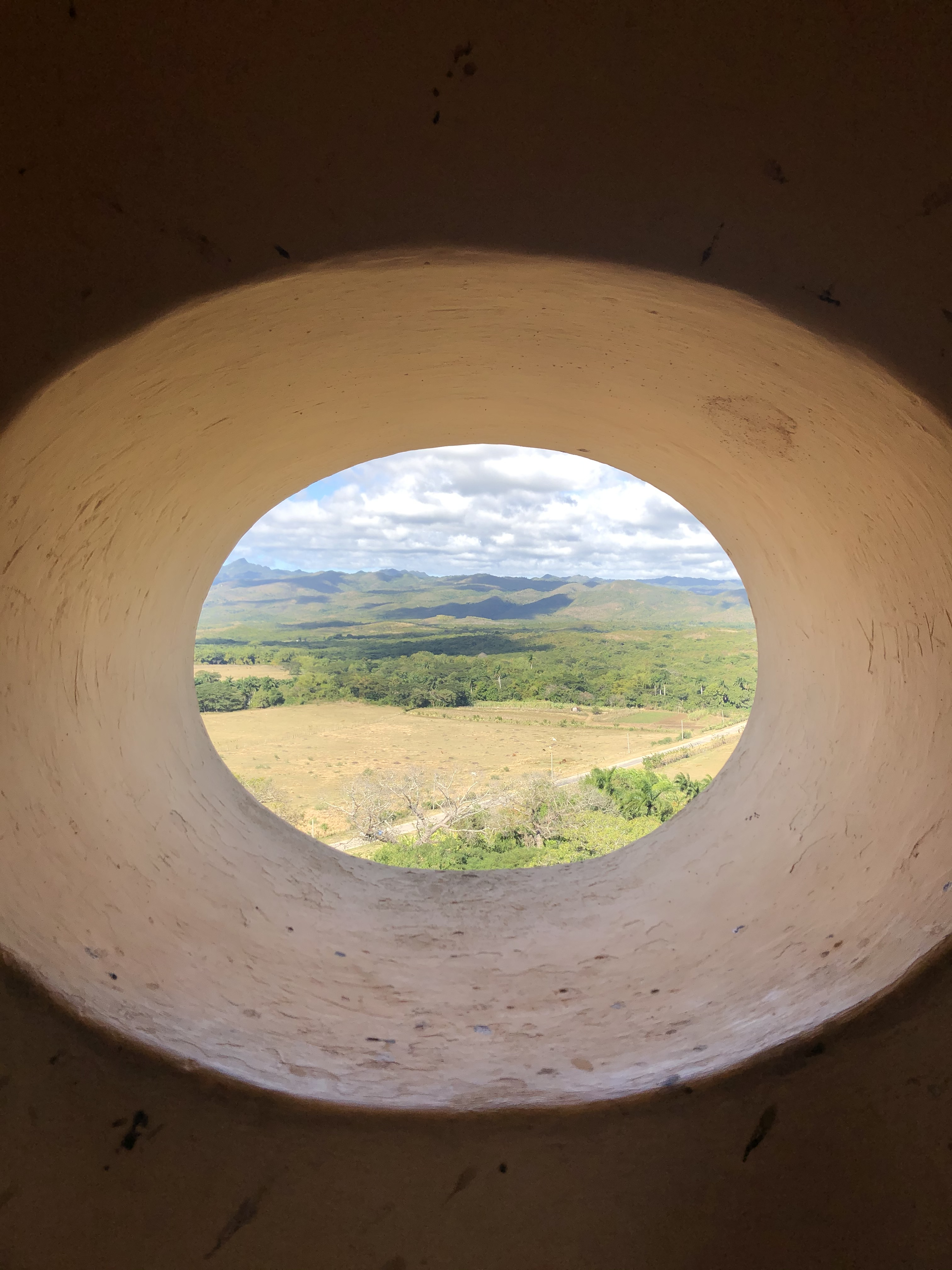 This tower watch over the slaves in the sugar cane fields